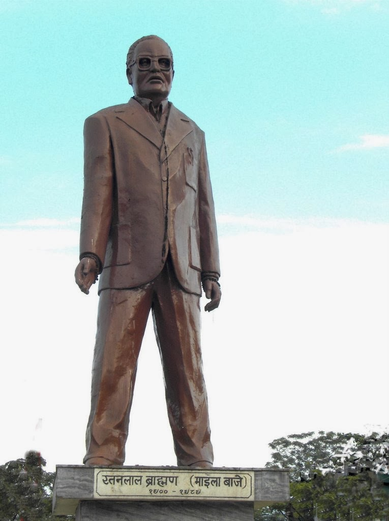 Statue of Ratan lal Brahin